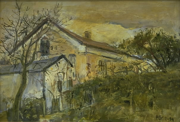 Hans Knudsen (1865-1947), Forsamlingshuset i Slagslunde, 1900-1944